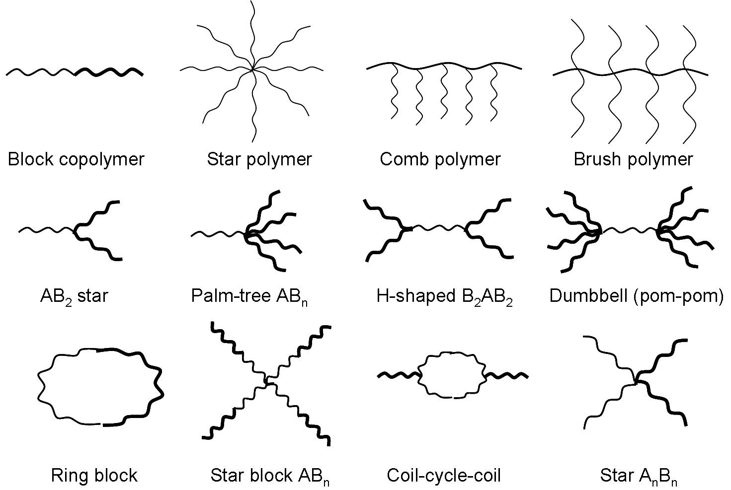 RAFT architecture